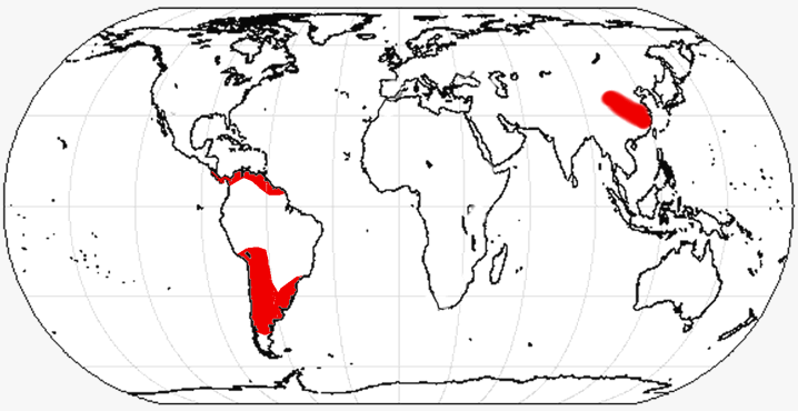 Range of Notounglata